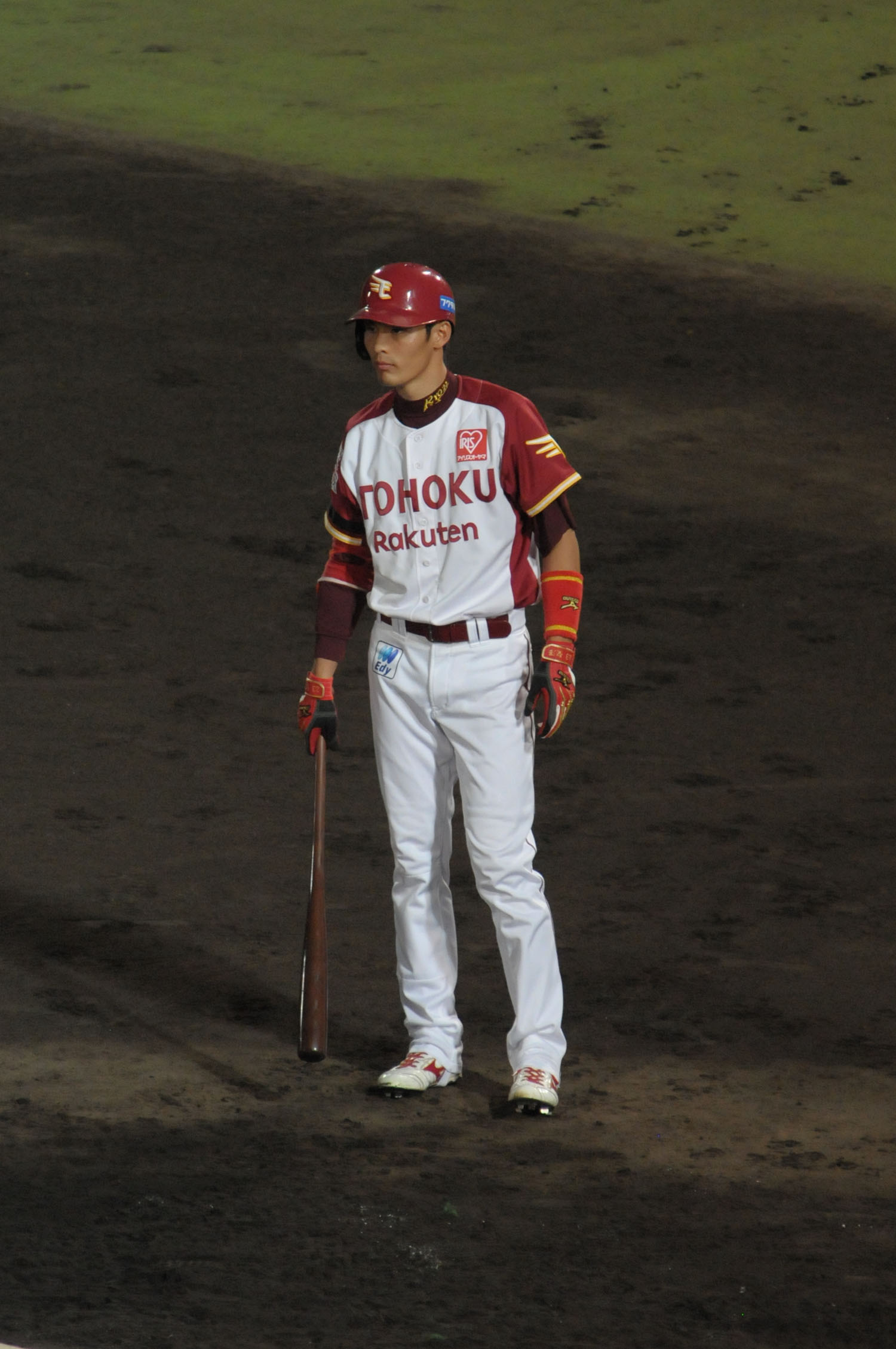 Ryo Hijirisawa, outfielder of the Tohoku Rakuten Golden Eagles, at Akita Prefectural Baseball Stadium